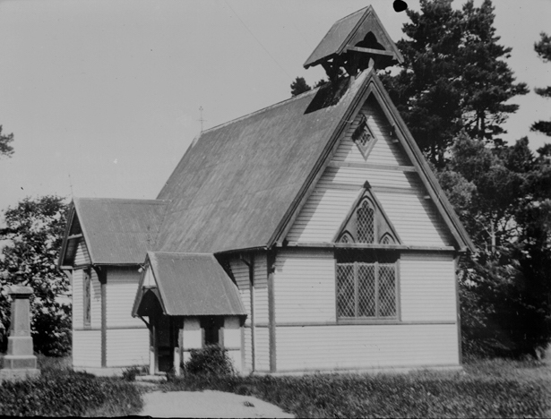 St Mary's Church, Springston, New Zealand, photographed by James D. Richardson likely in the 1920s. St Mary's opened on 29 March 1875; it was designed by Frederick Strouts (1835–1919), a Christchurch architect who later designed some of the original buildings at Lincoln College.